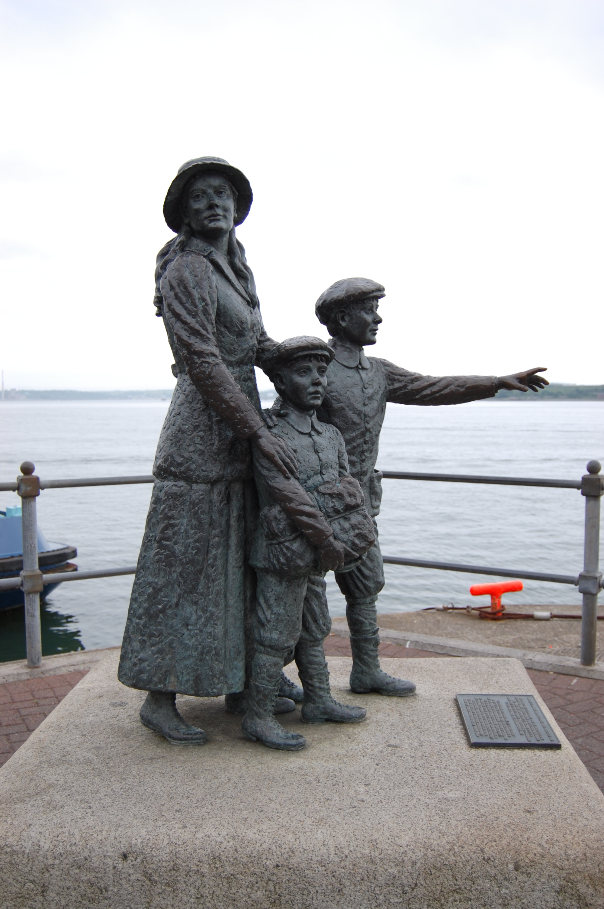 sculpture of Annie Moore (irish immigrant to the United States) in Cobh, County Cork, Ireland